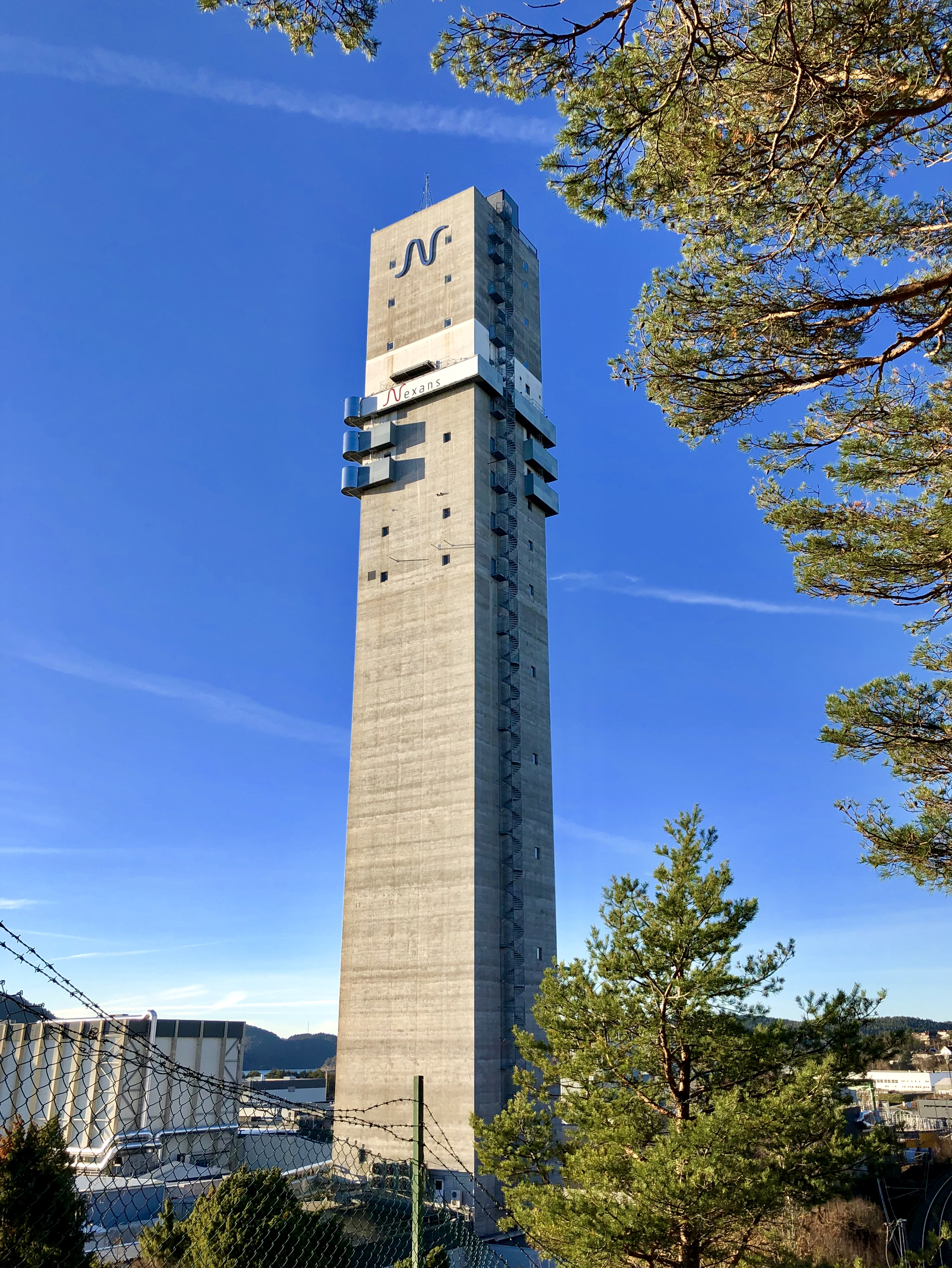 Nexanstårnet, tower in Halden, Norway for Polyethylene (PEX) cable-production